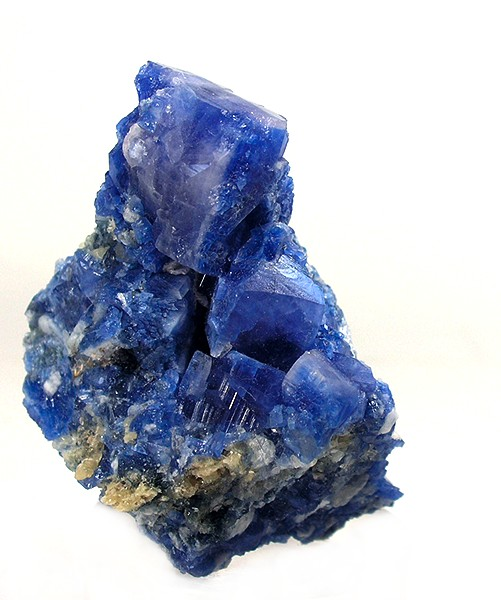 Carletonite Locality: Poudrette quarry (Demix quarry; Uni-Mix quarry; Desourdy quarry), Mont Saint-Hilaire, Rouville RCM, Montérégie, Québec, Canada (Locality at ) A very colorful, rich, 3-dimensional specimen of carletonite from the world's best (only, according to MinDat) locality for the material. This piece has VERY rich royal blue color, and a crystal of 1.8 cm on top. While not the largest, these are still very respectable bordering on huge, and the QUALITY is high in that the 2 major crystals are freestanding rather than , as usual, embedded in a jumbly matrix of others. Frankly, I had thought the good carletonites all sold out , as these came out of the ground about 5 years ago, and was VERY surprised to see a good one for sale at a reasonable price at the show from Gilles Haineult, who collected them back in the late 1990s. I would have bought this one, had I seen it, at any time since. Sometimes things just get lost and resurface this way. Even at this price, I think it is cheap compared to the VERY few others I have seen for sale, of any significance, in the last 3-4 years. To me, it is irreplaceable 4.1 x 3.7 x 3.1 cm